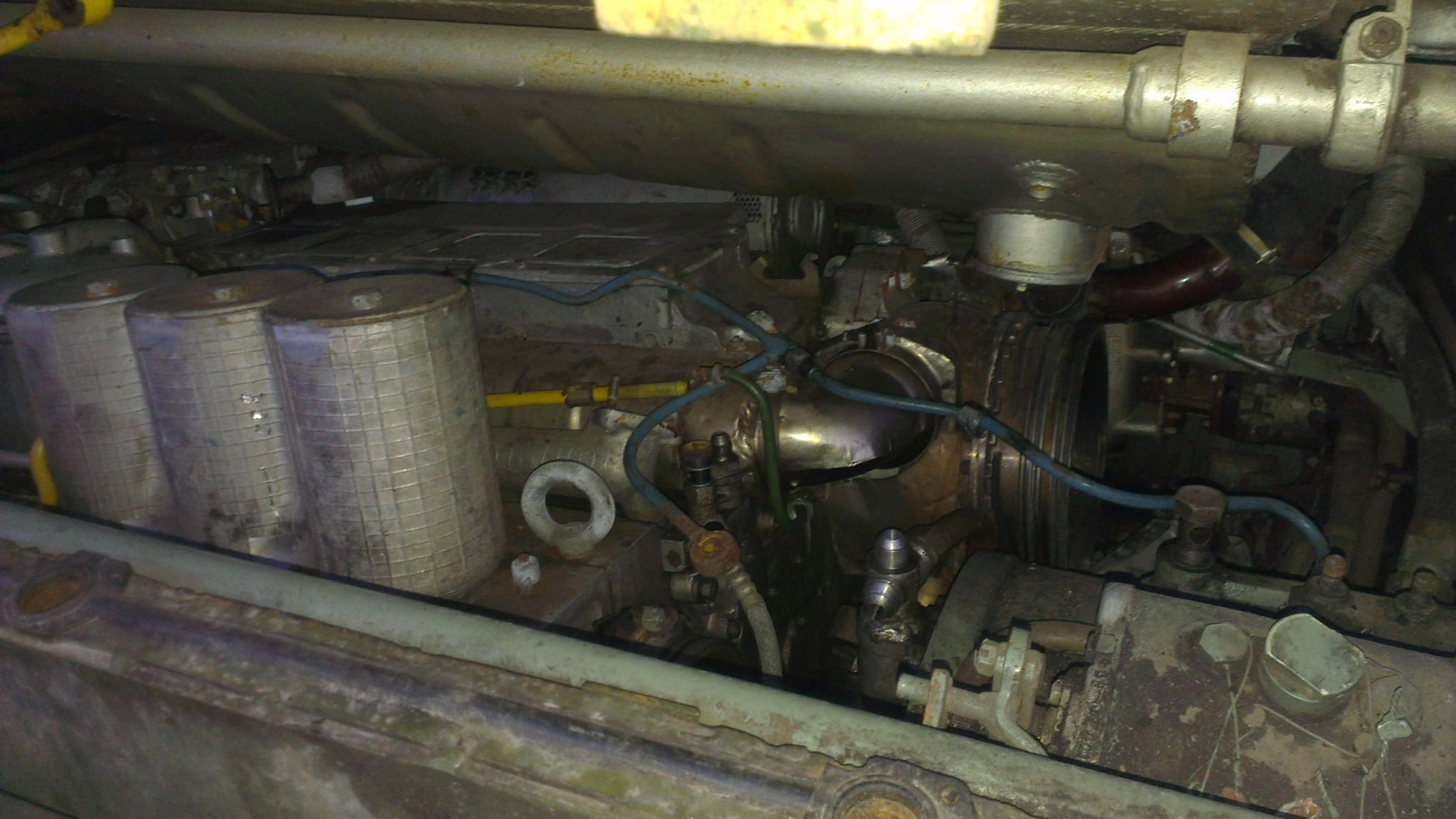 Photo of a 5TDF engine in the engine compartment of a T-64BV main battle tank